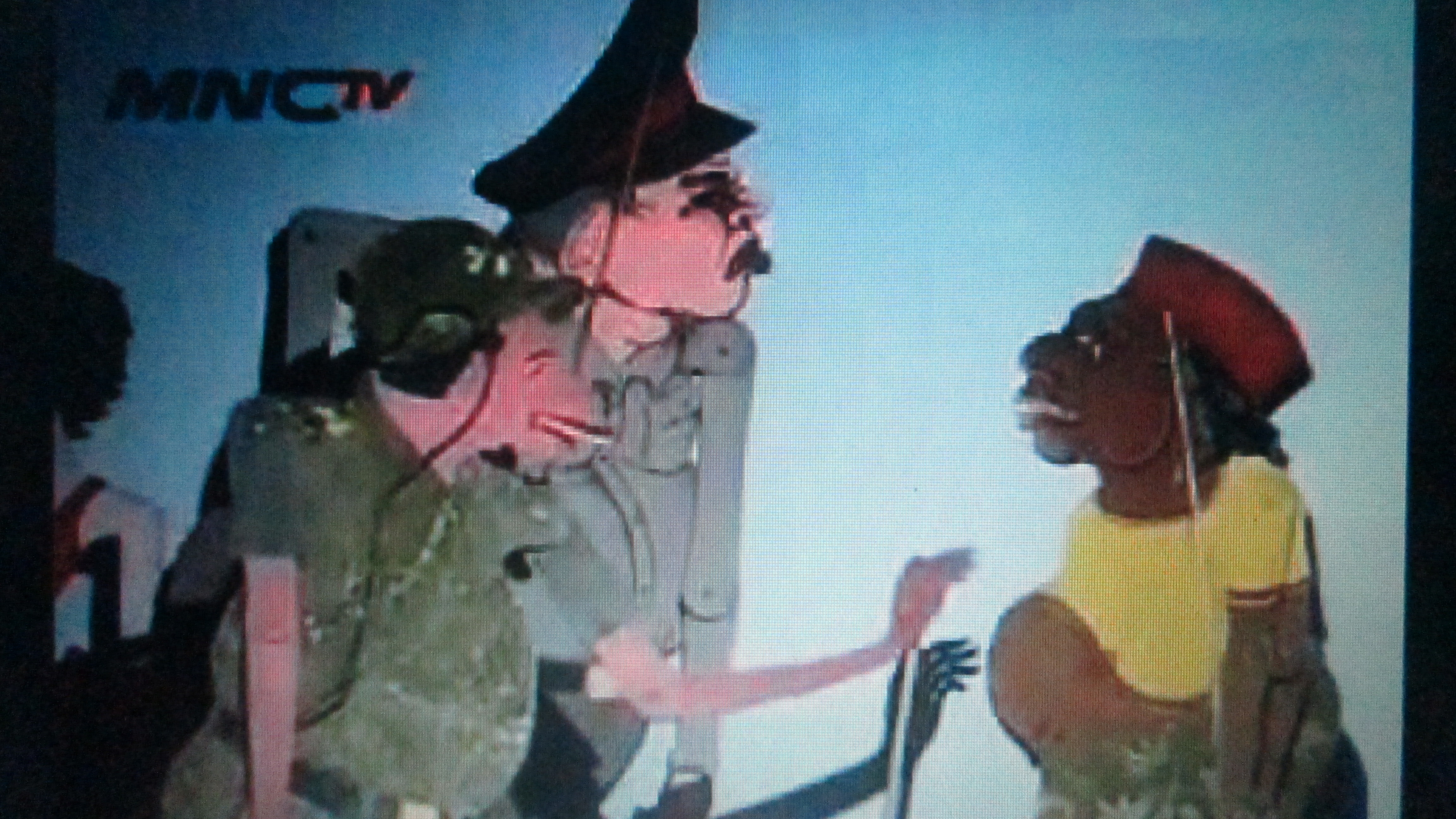 Foto Wayang Kampung Sebelah yang saya ambil dari televisi.